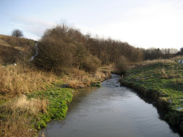 River Don, Boldon Colliery Rather a grand name for a small watercourse like this - seen here looking east, upstream from just below the Metro Station near Boldon Colliery